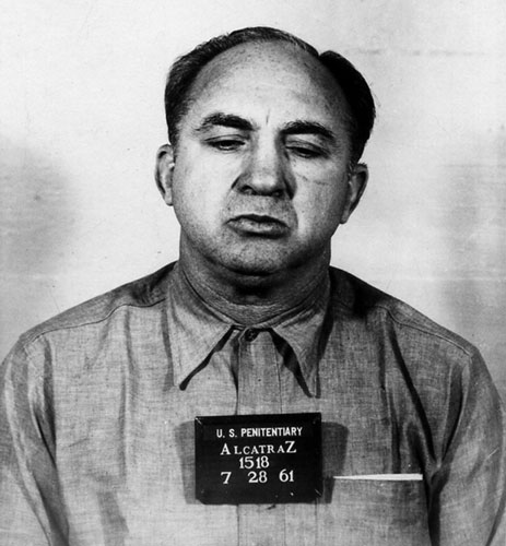 Meyer Harris "Mickey" Cohen was a gangster based in Los Angeles and part of the Jewish Mafia